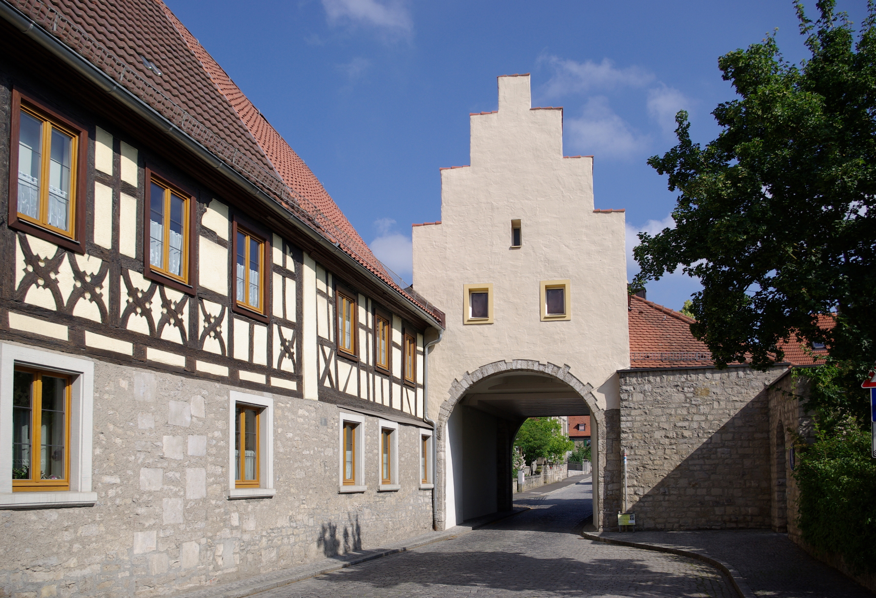 Germany, Sommerhausen, Würzburg gate